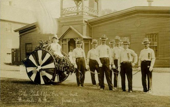 Scene at Brightwood Mills, Hinsdale, New Hampshire. Card inscription: "The Fisk Paper Co.'s Hose Cart, Hinsdale, N.H., June 19, 1908." Brightwood Mills (the sign on the building) manufactured tissue paper.